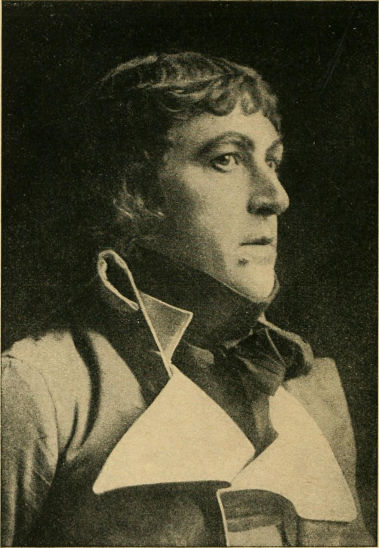 Werner Krauß als St. Just in Dantons Tod Title: Reinhardt und seine Bühne, Bilder von der Arbeit des Deutschen Theaters; Year: 1919 (1910s) Authors: Stern, Ernest Julian, 1876- Herald, Heinz Subjects: Reinhardt, Max, 1873-1943 Deutsches Theater (Berlin, Germany) Theater -- Germany Theaters -- Stage-setting and scenery Publisher: Berlin, Dr. Eysler Text Appearing Before Image: c Dem Der (iigf Text Appearing After Image: ■IPcrncr Äraiift aU et. 3uft fn „Öanton^ 2oD